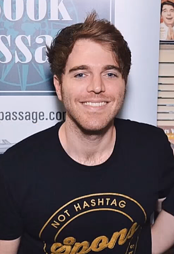 Shane Dawson in 2016.